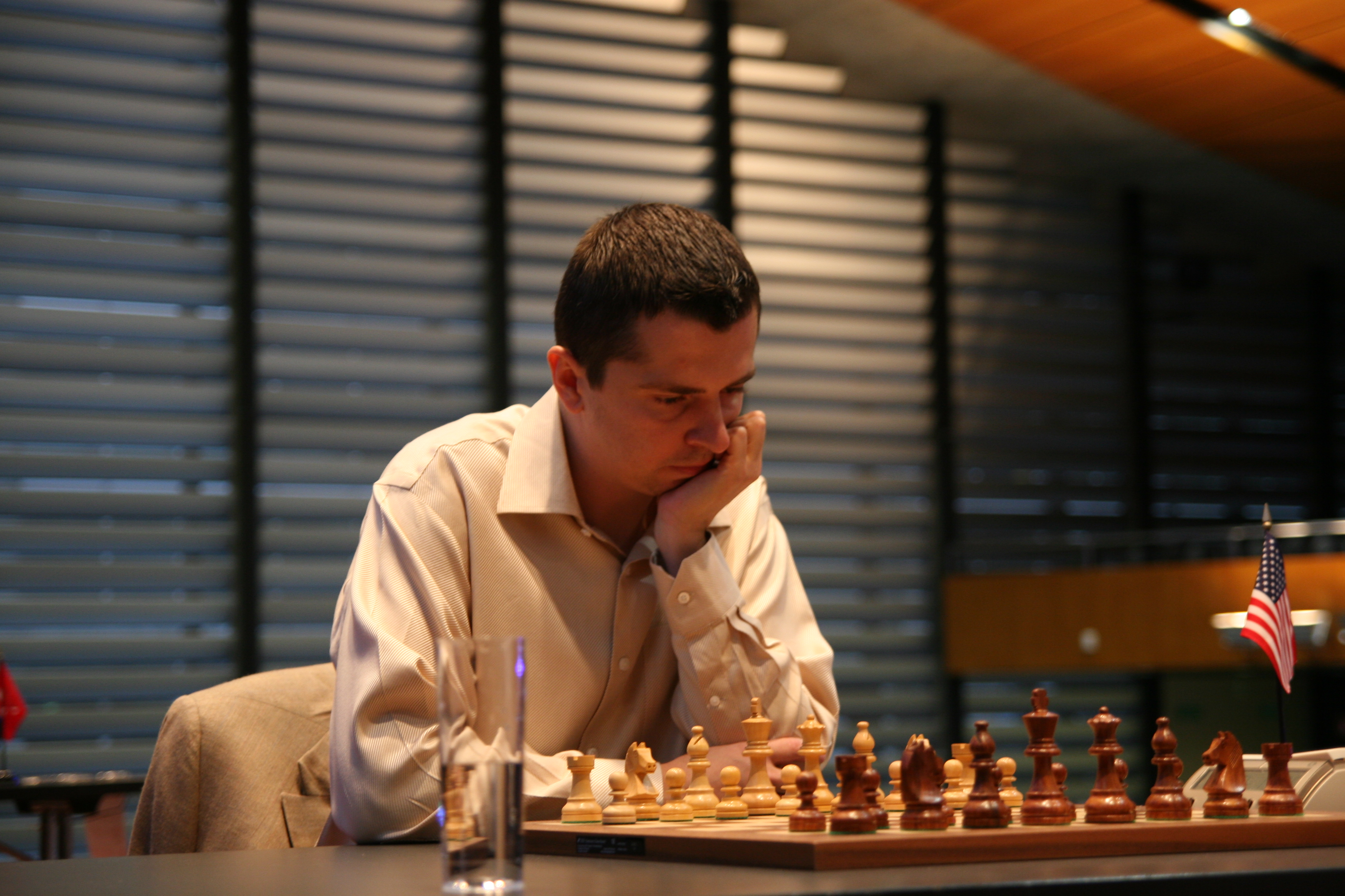 Alexander Onsichuk plays a game for the U.S.